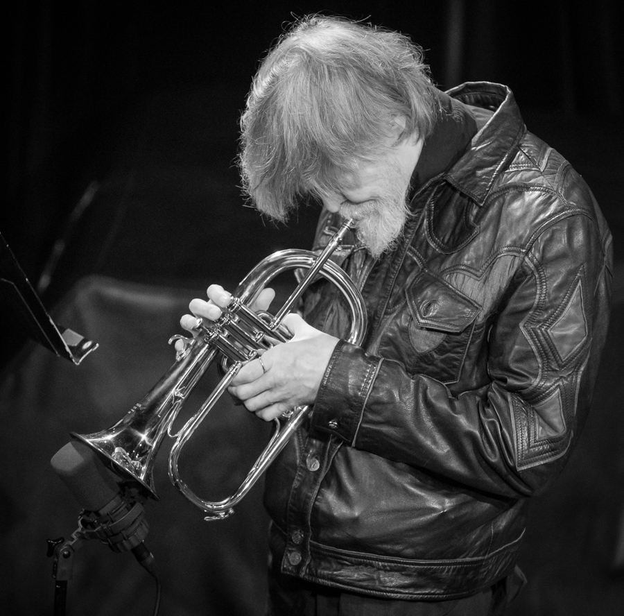 Tom Harrell Trip at Victoria Teater. The concert was part of Oslo Jazzfestival and took place on 15. August 2017 in Oslo. Lineup: Tom Harrell (trumpet), Mark Turner (tenor saxophone), Ugonna Okegwo (double bass) and Adam Cruz (drums).